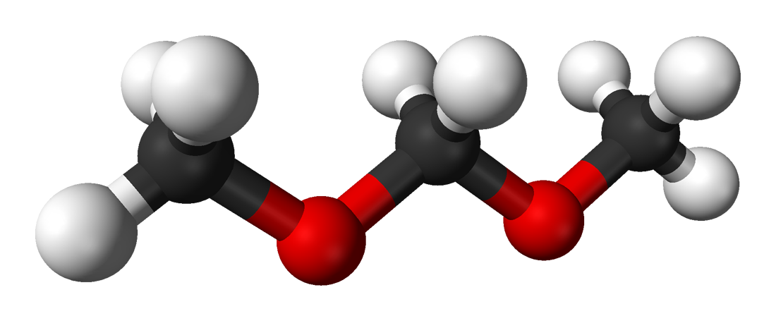 Ball-and-stick model of dimethoxymethane in its anti-anti conformation